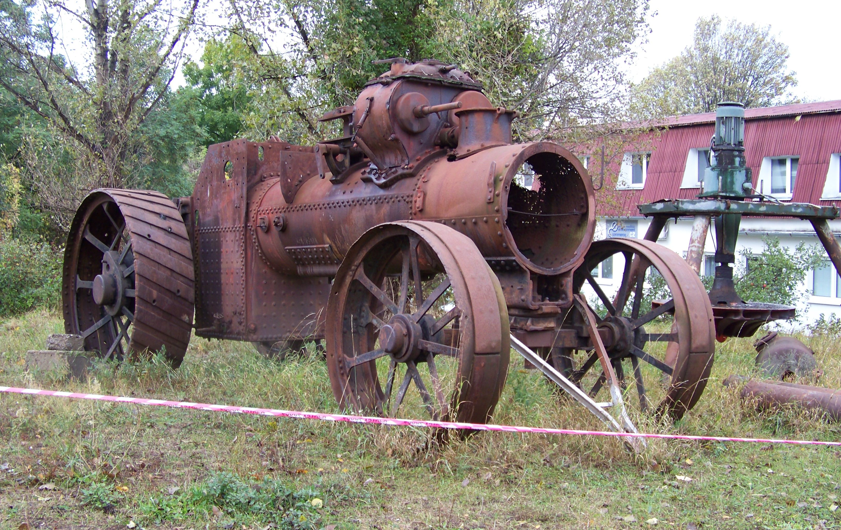 Bubeneč, Prague, the Czech Republic. Central Wastewater Treatment Plant and Ecotechnical Museum. A locomobile. - Google Maps - Google Earth